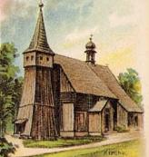 Early church in Krowiarki